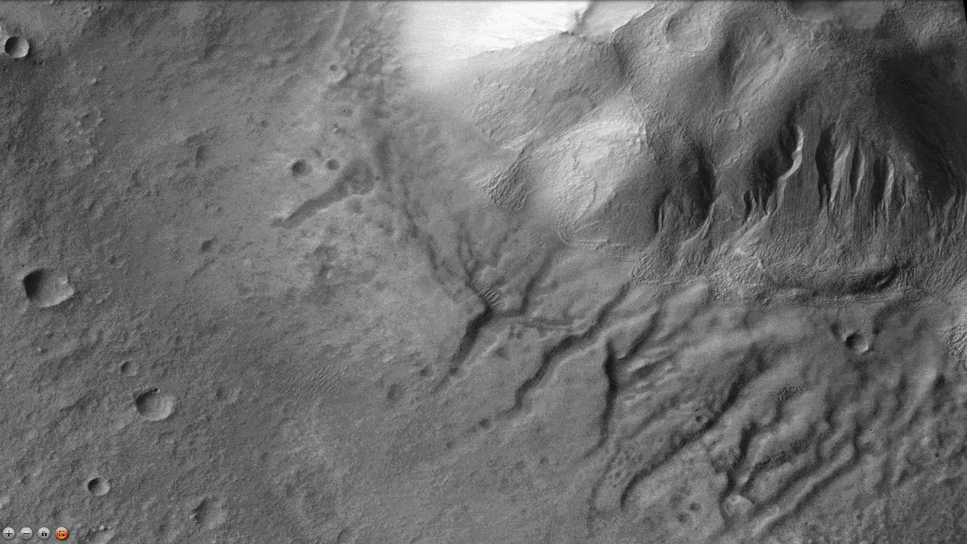 Martz Crater showing gullies, as seen by ctx